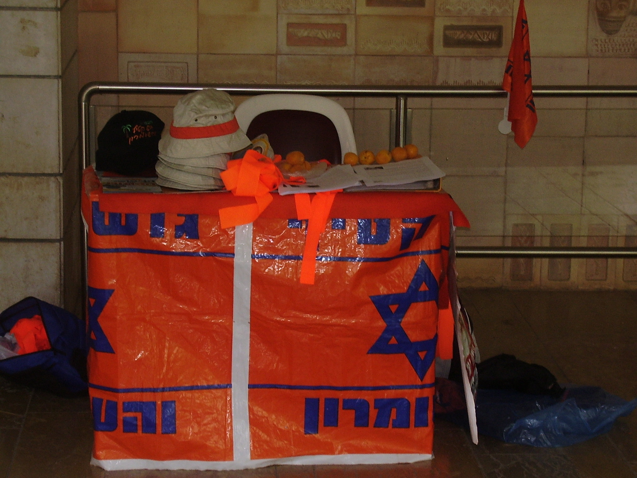 Ta Katom (Political Student Movment against Israel unilateral disengagement plan of 2004) Stall in Campus Givat-Ram of HUJI